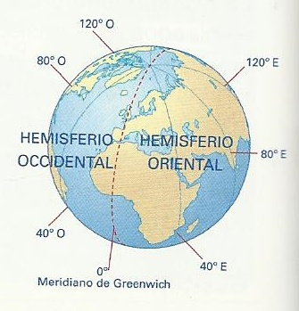 The map of the Earth divided into two hemispheres: the West and the East , with their names and grades.